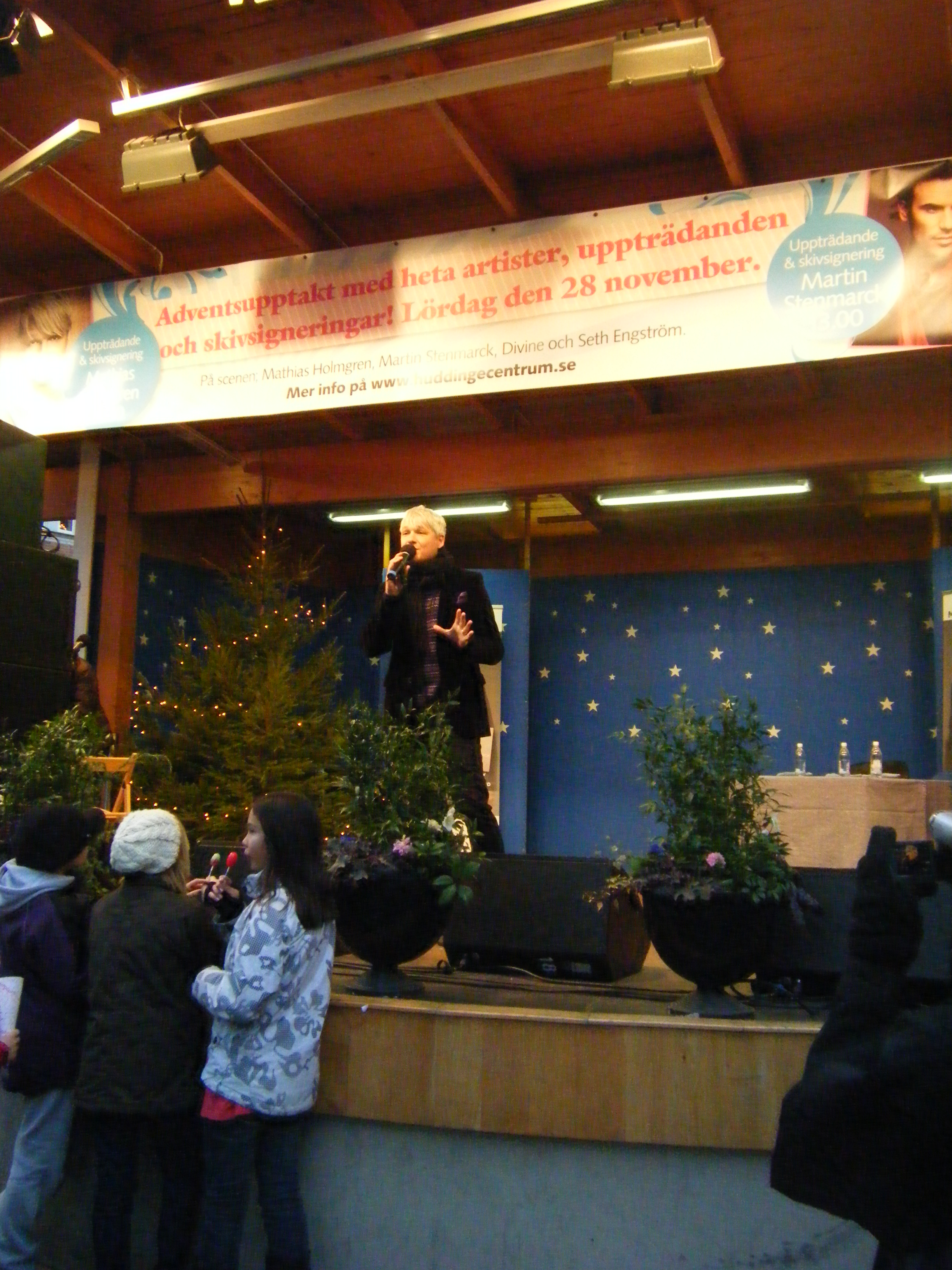 The musicearist Mathias Holmgren in Huddinge Centrum.